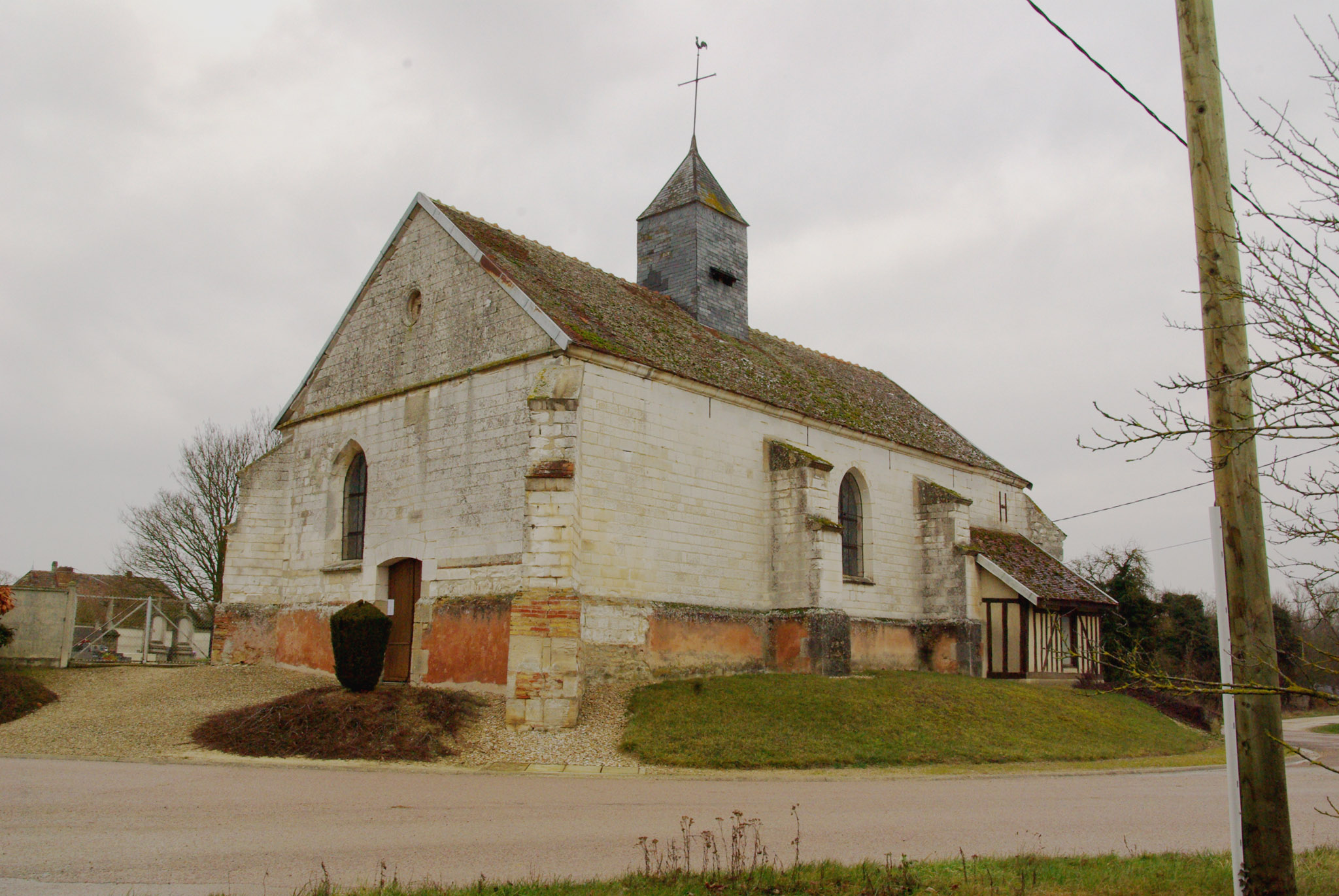 Torcy-le-Petit, the Church